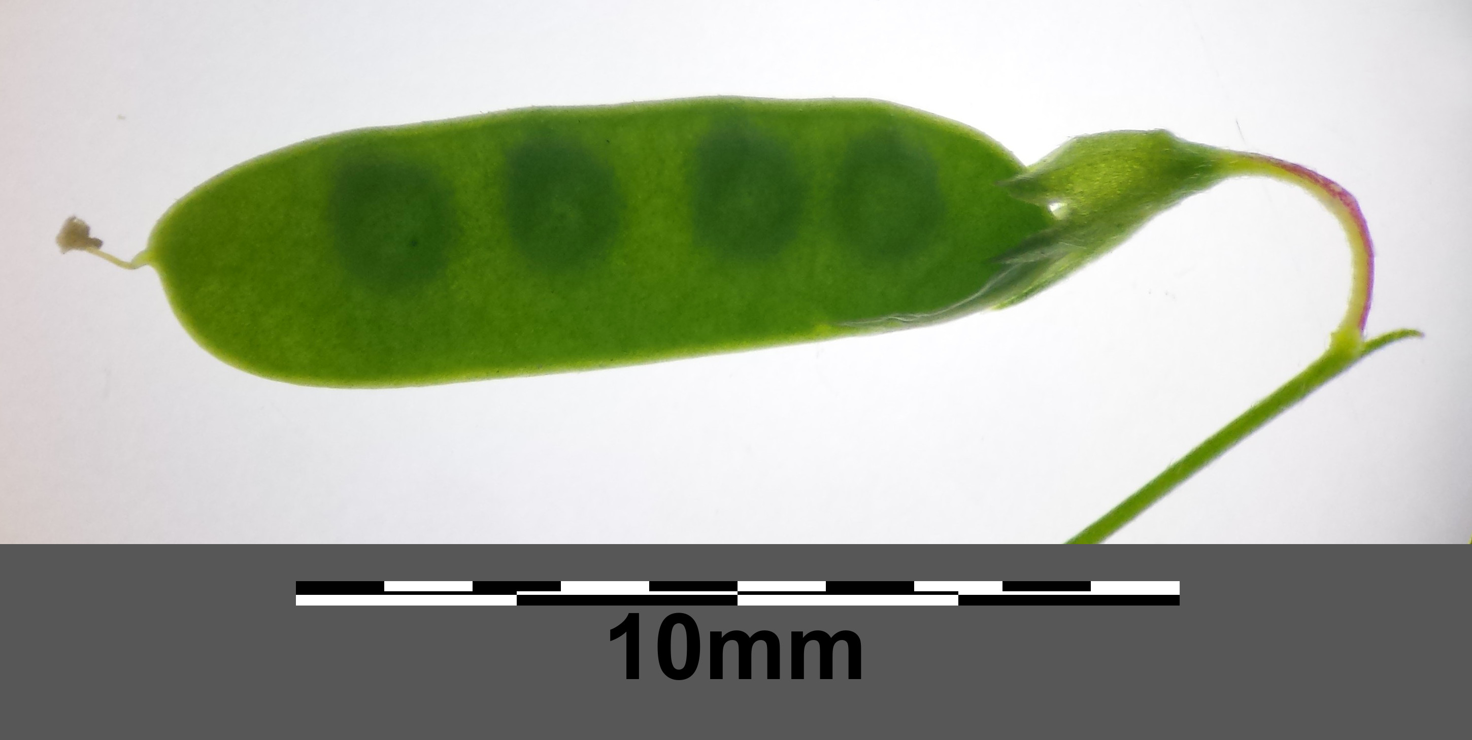 Legume with background lighting Taxonym: Vicia tetrasperma ss Fischer et al. EfÖLS 2008 ISBN 978-3-85474-187-9 Location: between Stockerau and Spillern, district Korneuburg, Lower Austria - ca. 170 m a.s.l. Habitat: ruderal meadows